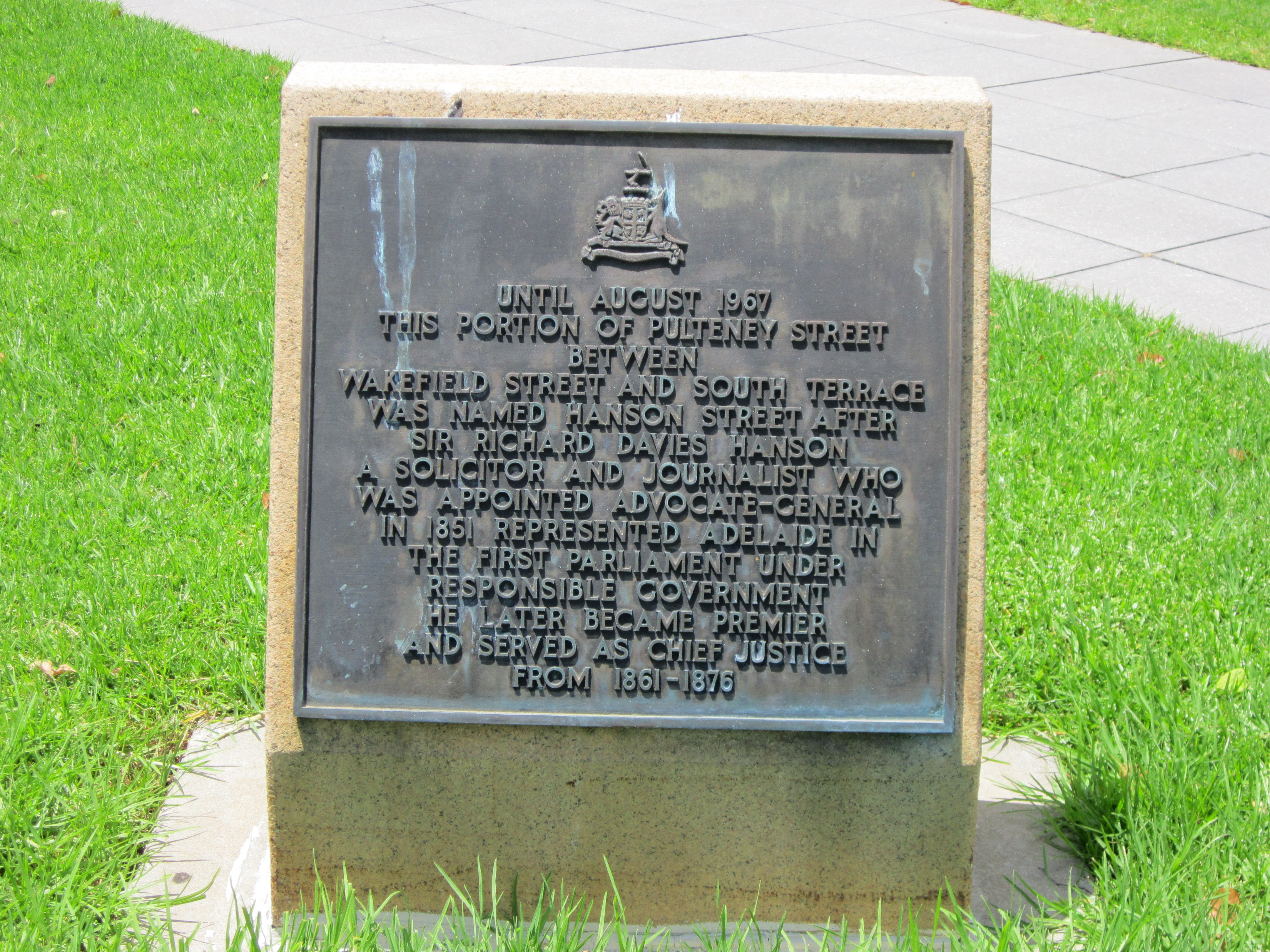 A plaque commemorating the now renamed Hanson Street (and the eponymous person named Hanson), located in Hurtle Square, Adelaide